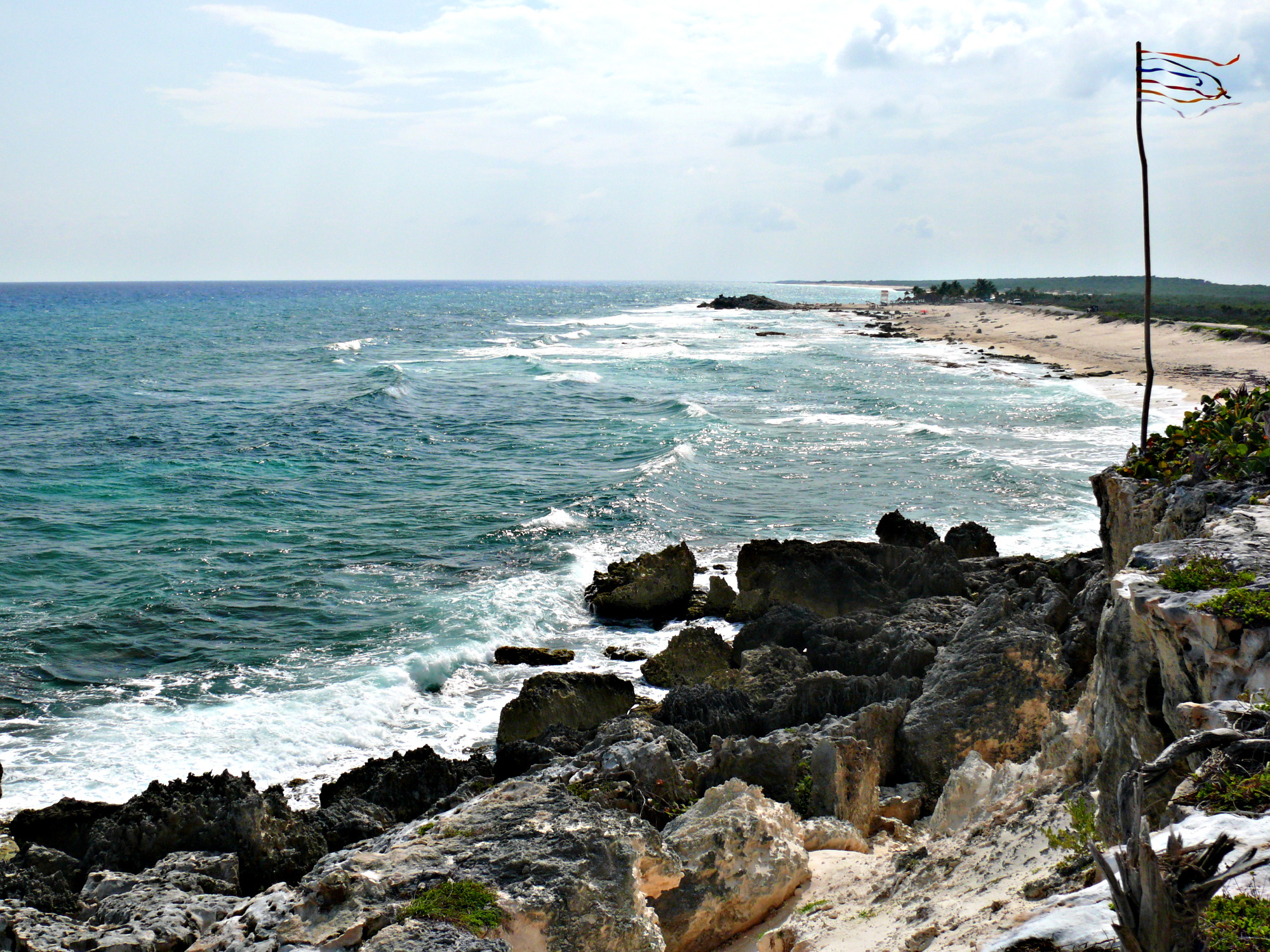 The view looking south down the windward (eastern) shore from atop the cliffs at Coconuts Bar & Grill. Photo taken with a Panasonic Lumix DMC-FZ50 on the island of Cozumel in Quintana Roo, Mexico.